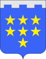 Coat of Arms of Temizhbeksi, Stavropol Krai, Russia.